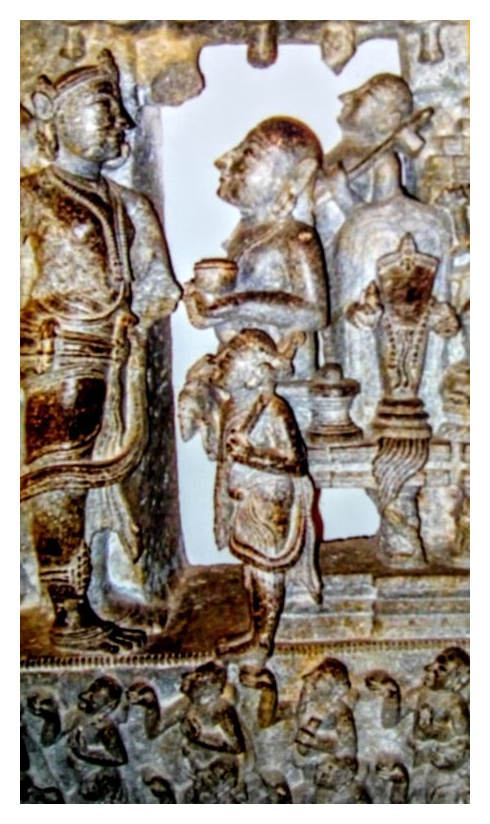 Detached Konark stone panel showing Brhamins asking for alms from Narasimha Deva I